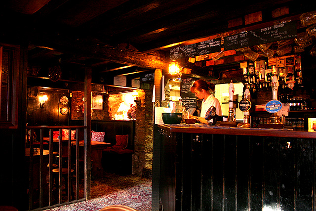 Kingston: The Dolphin The interior of this 16th century pub, close to the church of St James the Less. Beers on tap include Sharps Doom Bar and Teignworthy Spring Tide